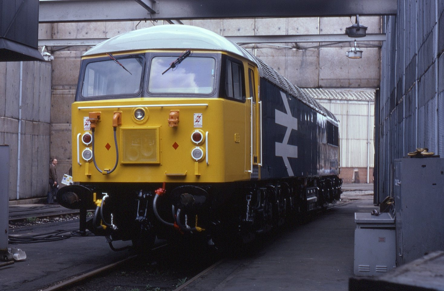 135 of these locomotives were built with 56031 to 56115 being constructed at BREL Doncaster Works from the late 1970s Production of the final 20 was moved to Crewe and for the record the first 30 were built by Electroputure in Romania. By the time this example, 56107 was built, they were being outshopped in with large yellow ends as seen here on 9 May 1982.